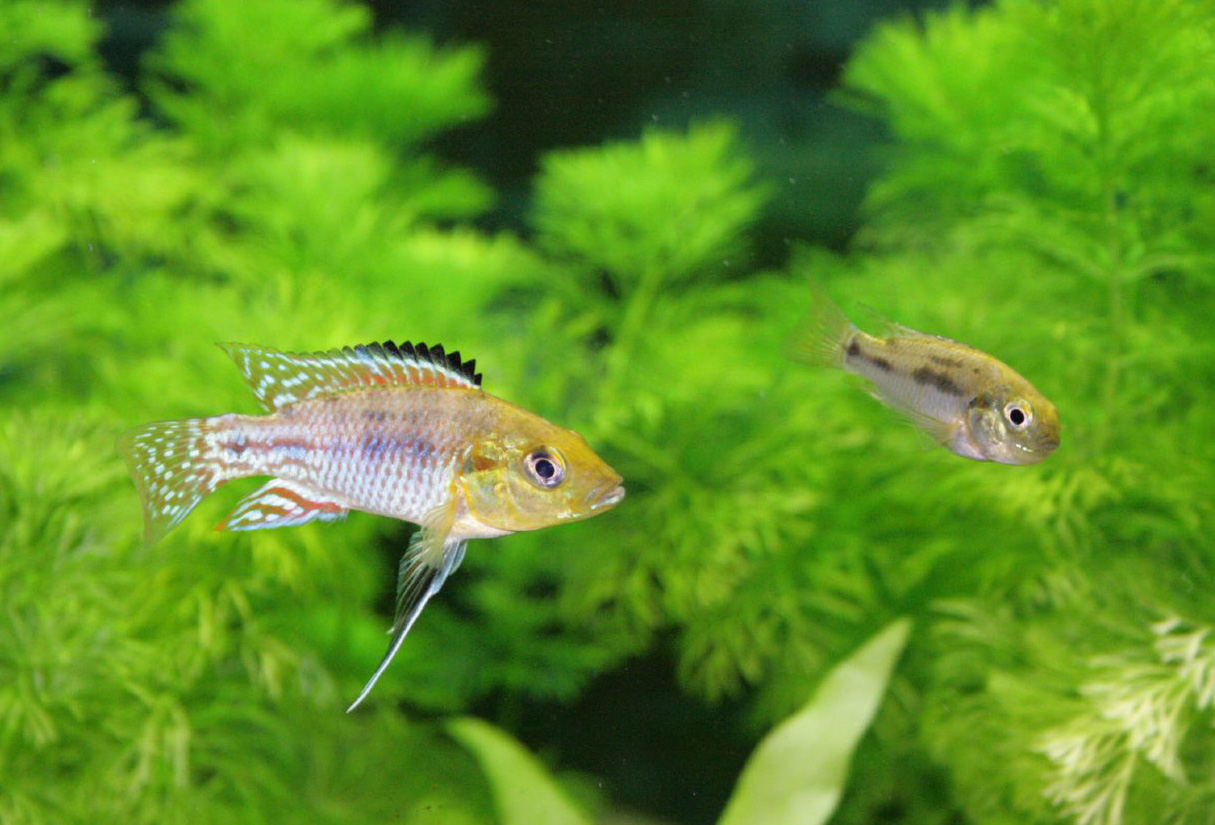 Male (left) and female (right) Egyptian Mouthbrooders